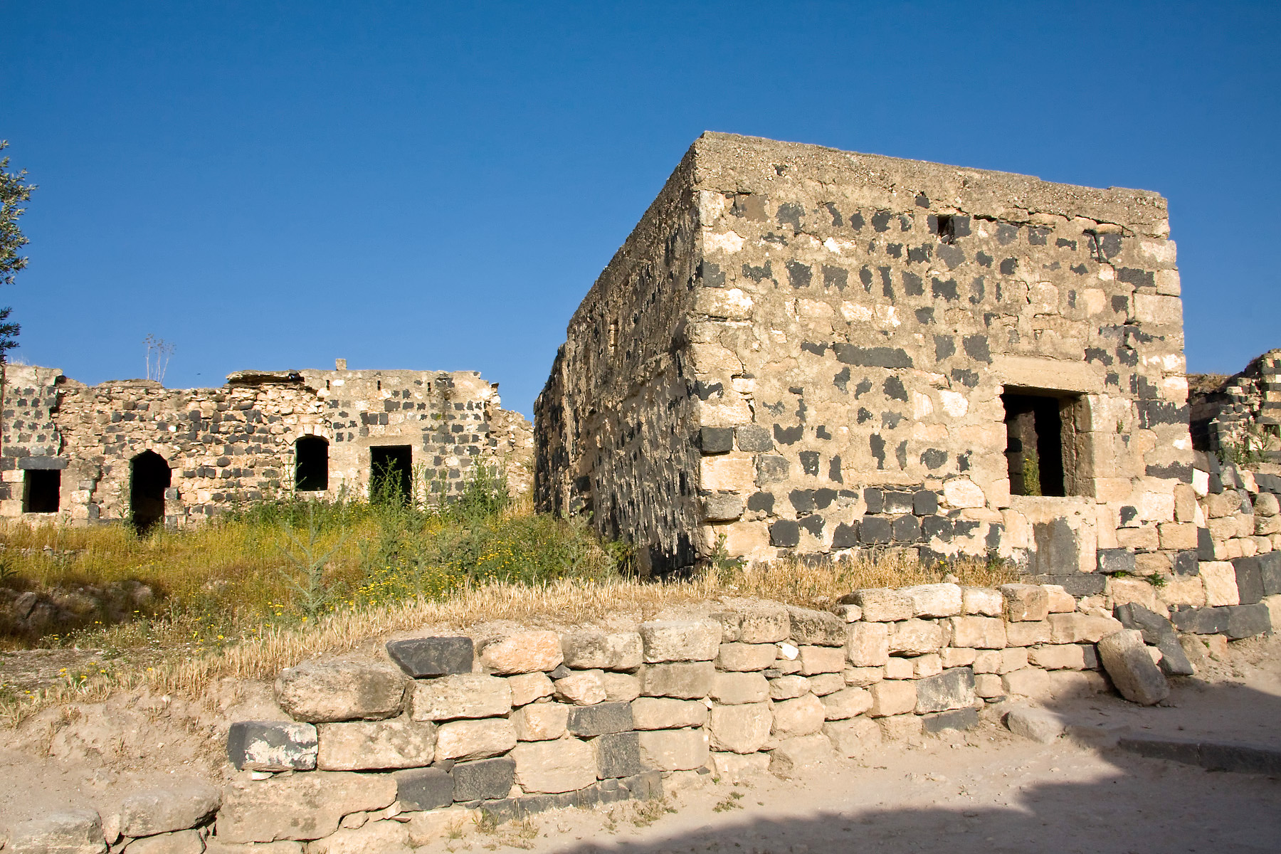 The ottoman village of Umm Qais, Jordan.